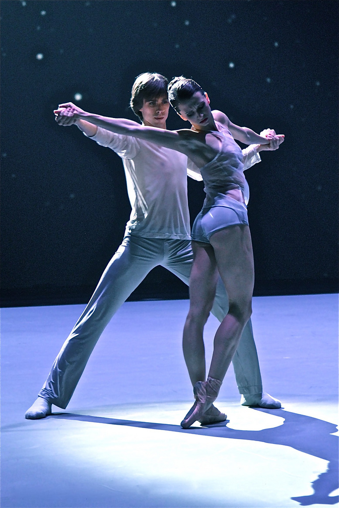 Anna Tikhomirova and Artem Ovcharenko (Bolshoi Ballet), "The Grey Area" (David Dawson) (Дэвид Доусон (хореограф)